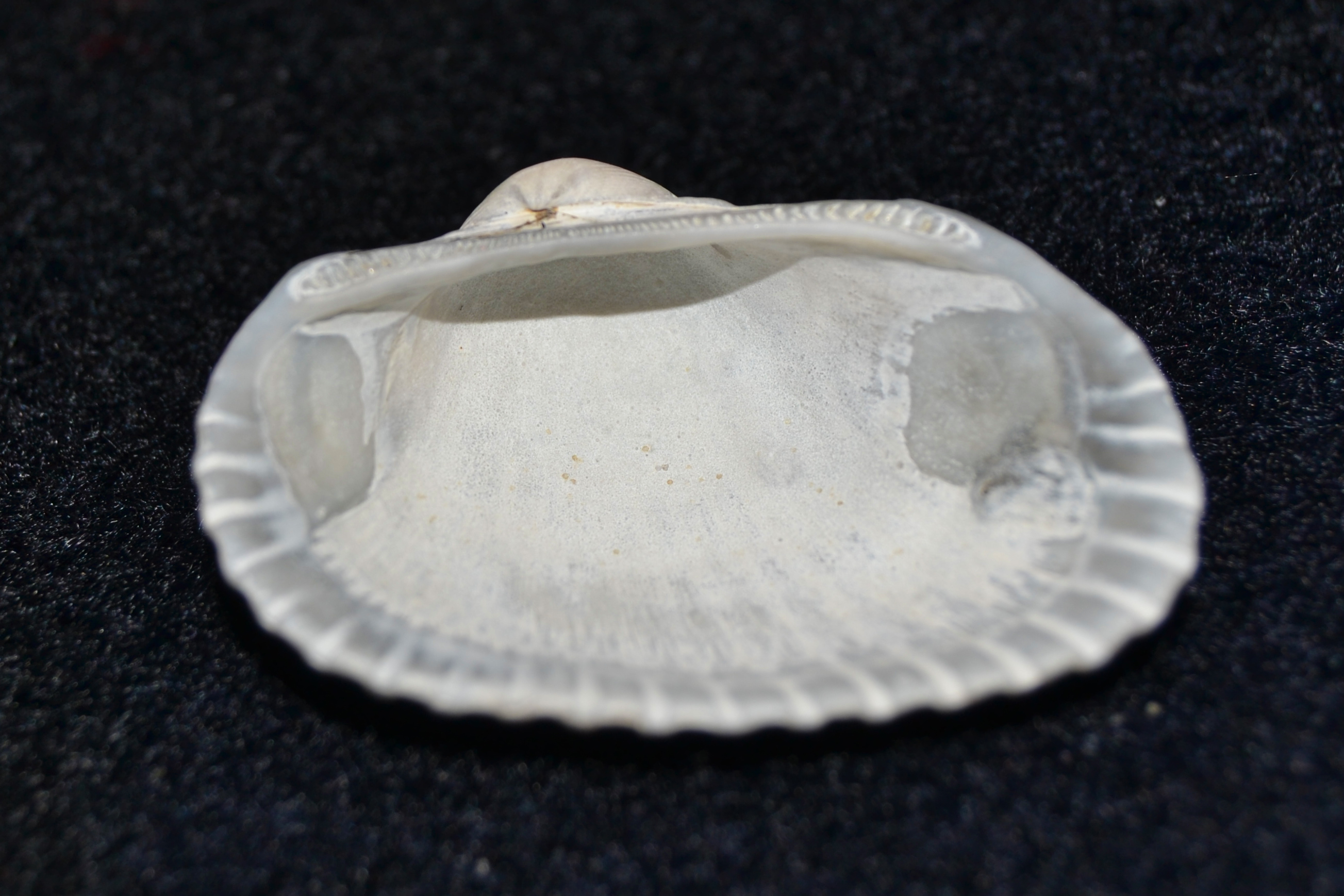 Hammonasset State Park, Madison, Connecticut